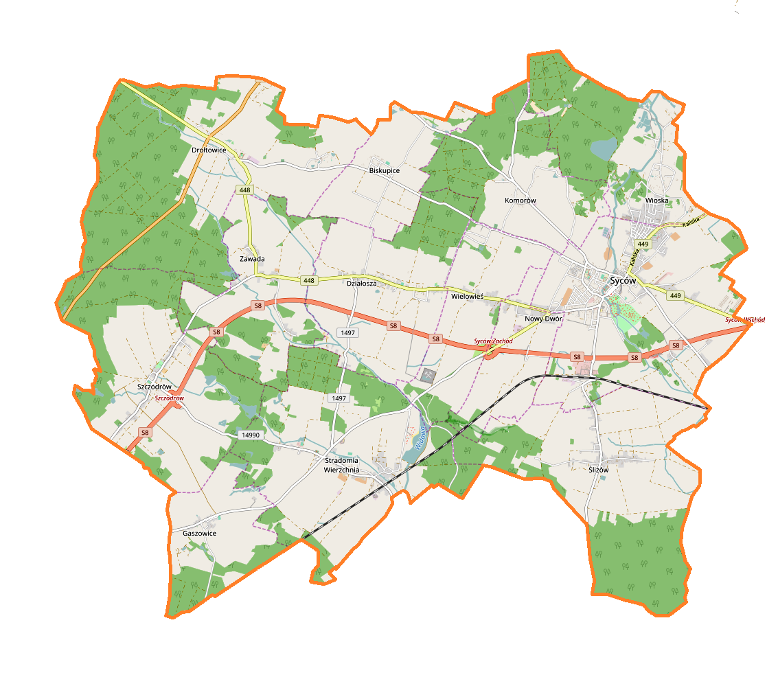 Location map.